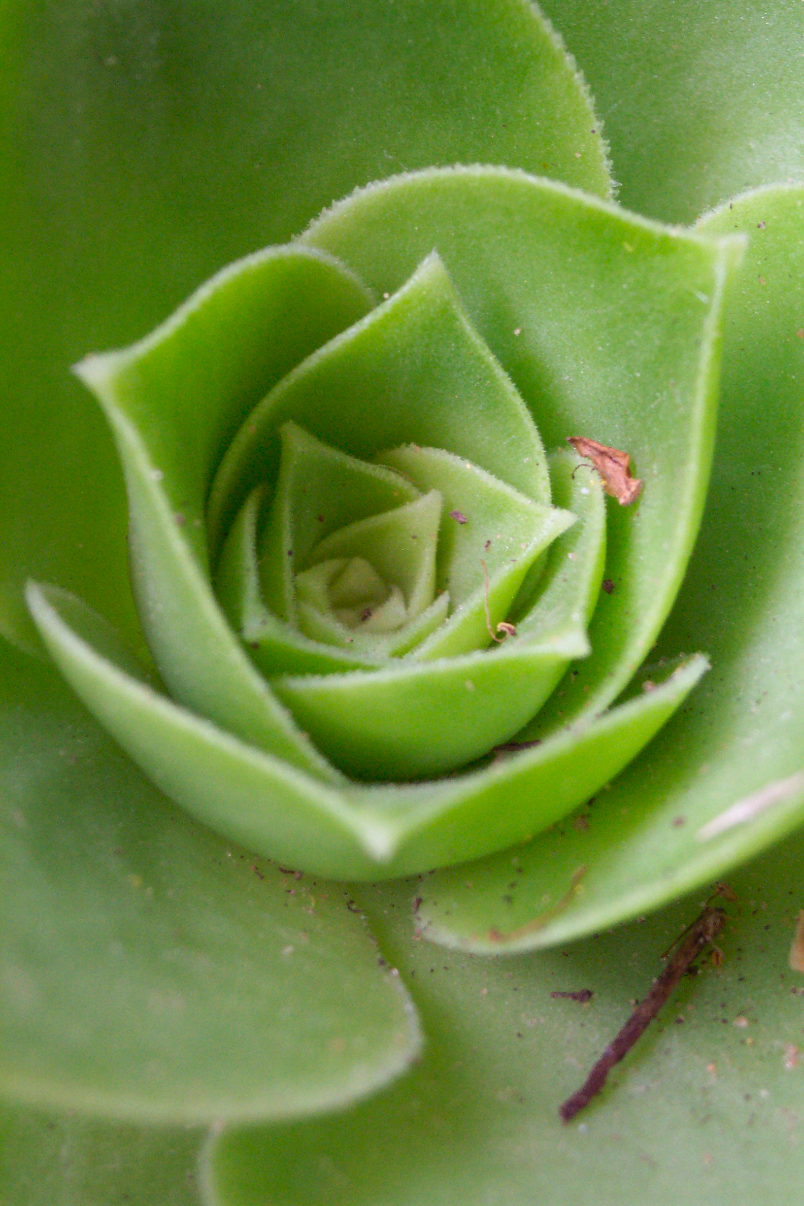 Flora of Israel